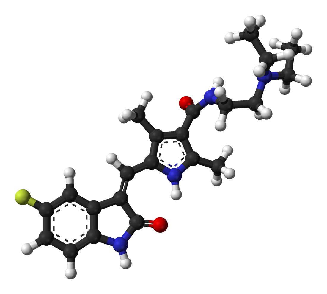 Ball-and-stick model of the sunitinib molecule, C22H27FN4O2. Molecular model from . Image generated in Accelrys DS Visualizer.